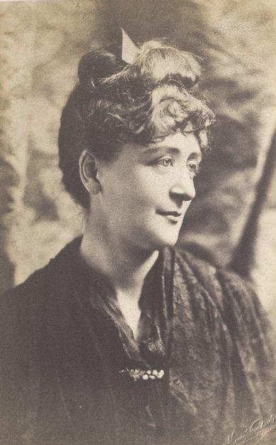 Portrait of May French Sheldon